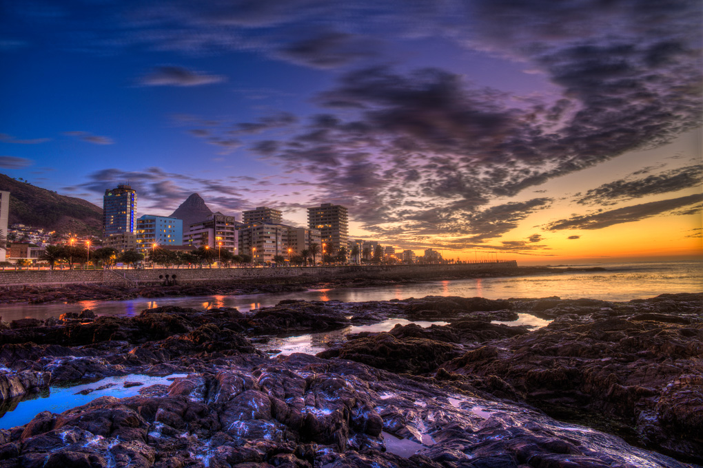 Sunset at Greenpoint in Cape Town in the Western Cape of South Africa